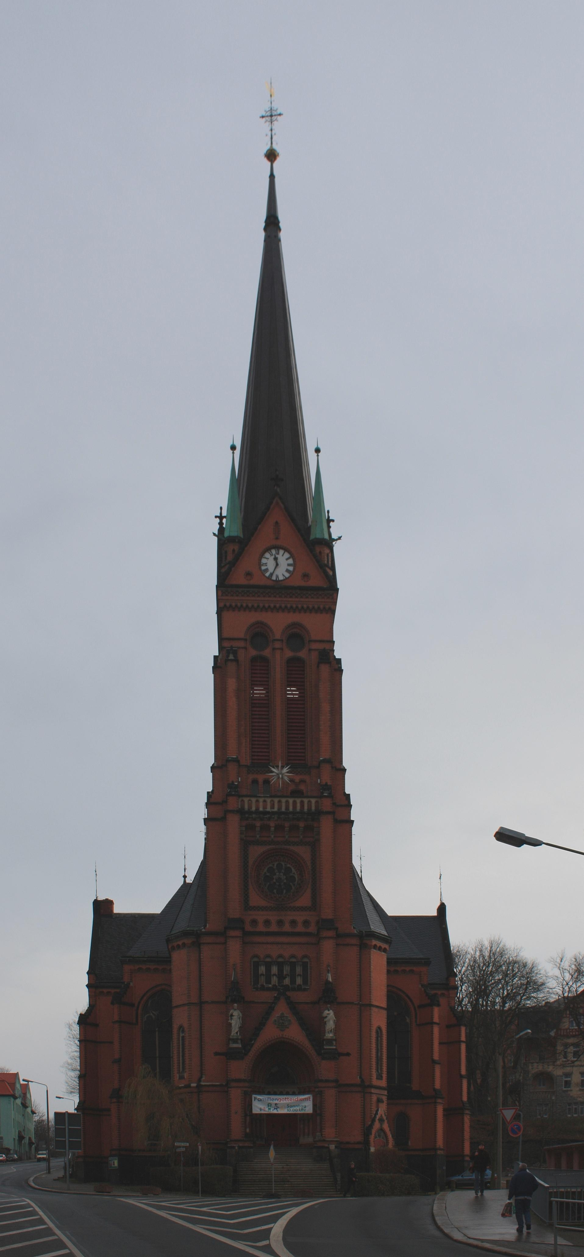 Nikolaikirche church, Aue, Sachsen, Germany